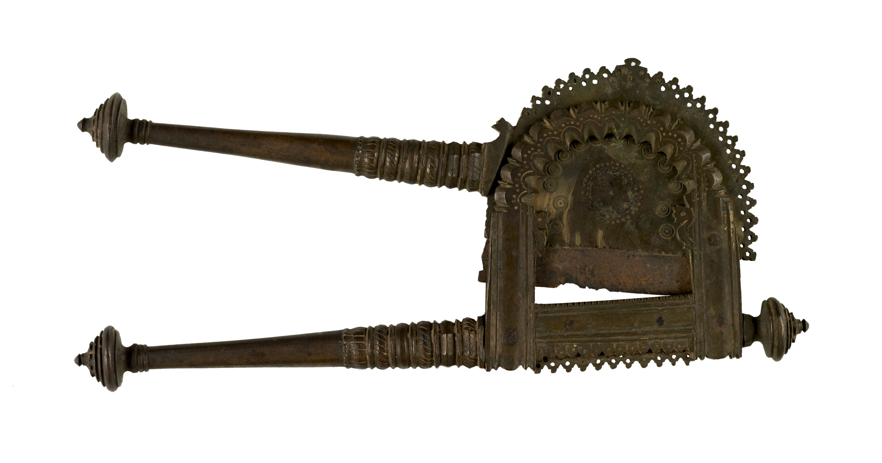 This betel-nut cutter is a richly engraved horseshoe-shaped loop with a broad cutter, and tapering round handles with knobs at the ends.